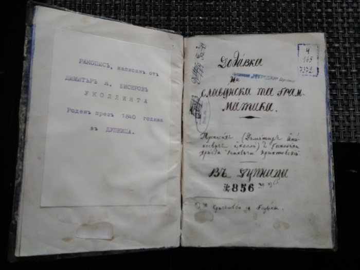 Manuscript of Dimitar Biserov